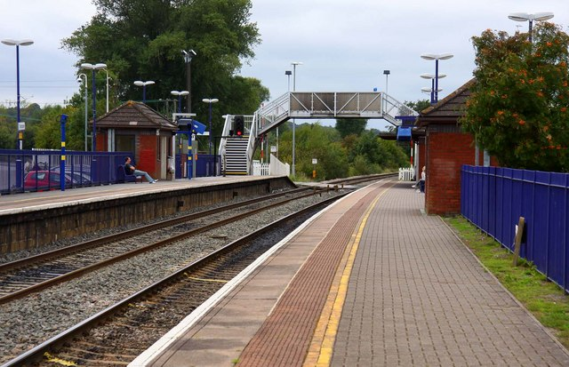 Thatcham Station